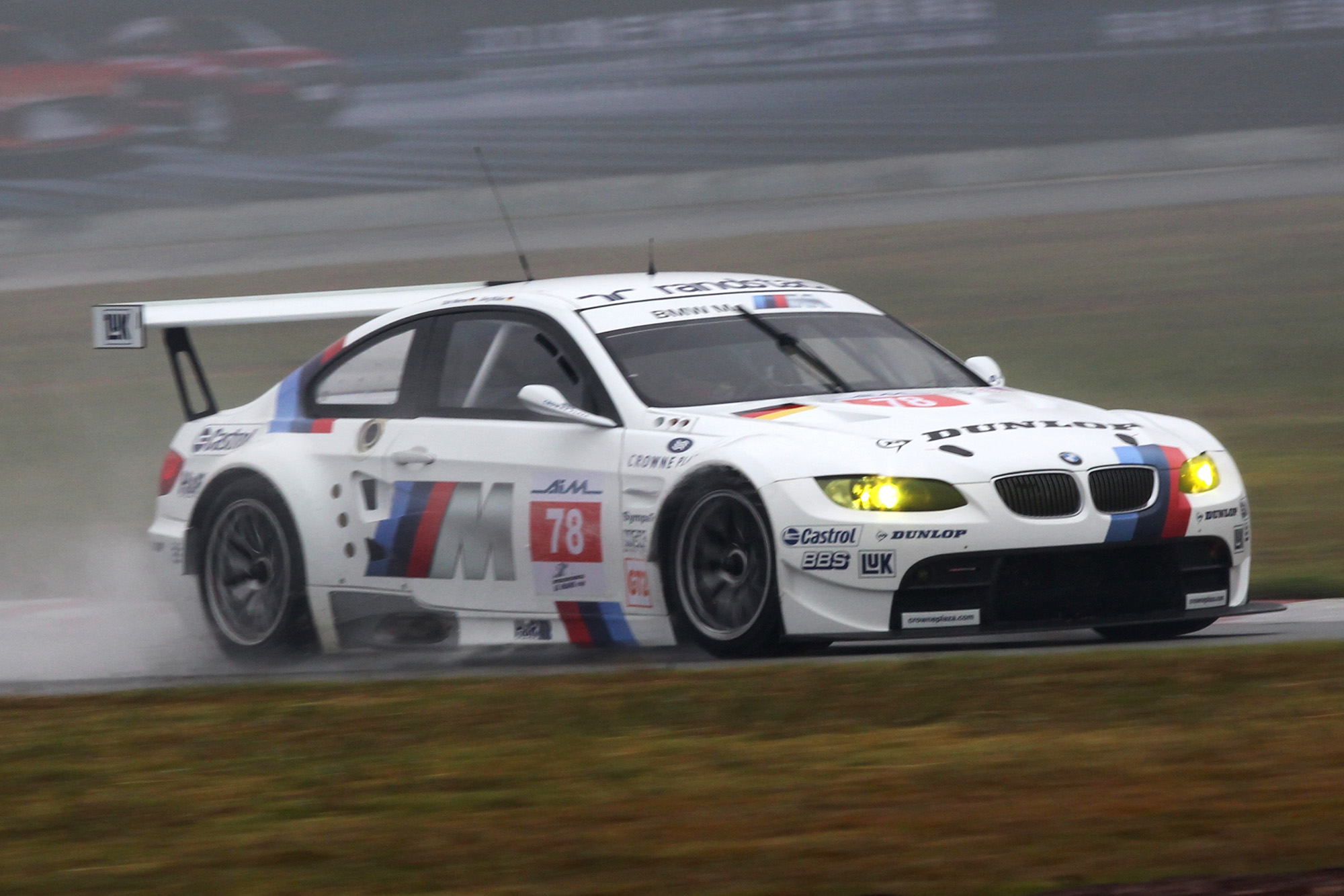 BMW M3 GT2 racing at ILMC 1000 km of Zhuhai, 2010.